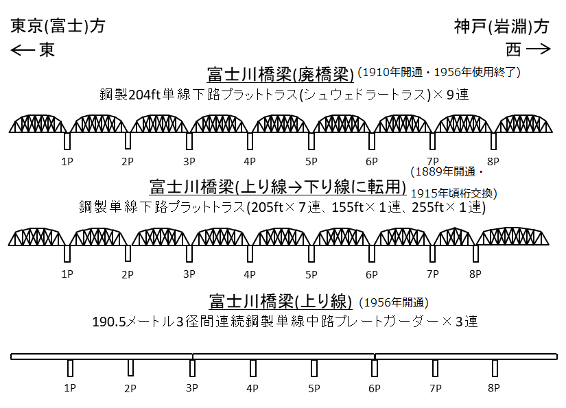 Description figure of Fujikawa railway bridge on Tokaido mainline. A new bridge was constructed in 1956 and the former eastbound bridge was converted to westbound bridge, and the former westbound bridge was abandoned.